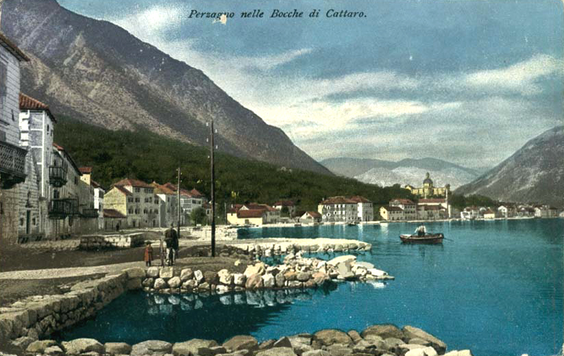 Postcard of Austro-Hungary, Kotor/Cattaro, 1912